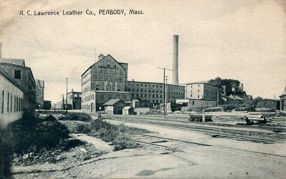 A. C. Lawrence Leather Company, Peabody, MA; from a c. 1910 postcard.